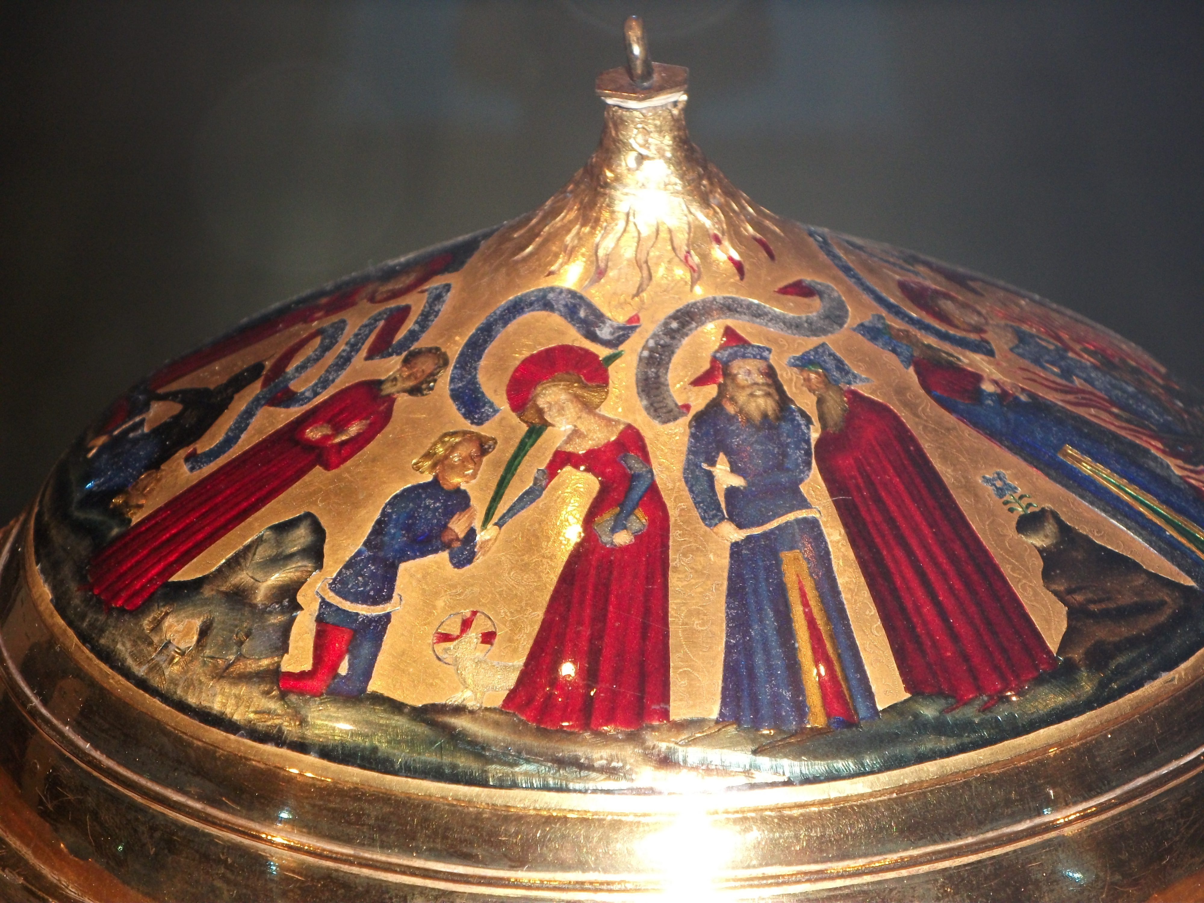 The Royal Gold Cup or Saint Agnes Cup is a solid gold covered cup lavishly decorated with enamel and pearls. It was made for the French royal family at the end of the 14th century, and later belonged to several English monarchs, before spending nearly 300 years in Spain. Since 1892 it has been in the British Museum, and is generally agreed to be the outstanding survival of late medieval French plate.